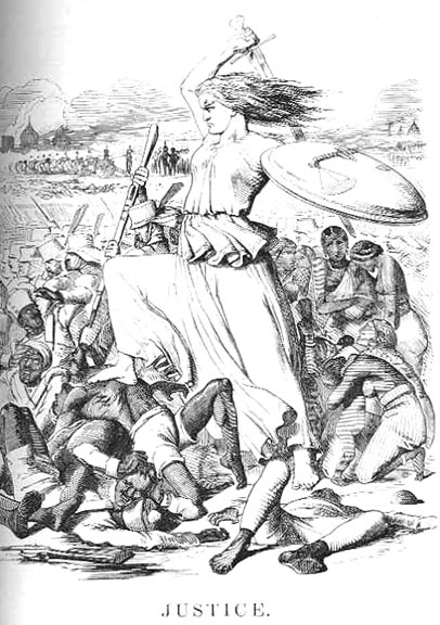 Title as 'Justice' figured by John Tenniel, September 1857.